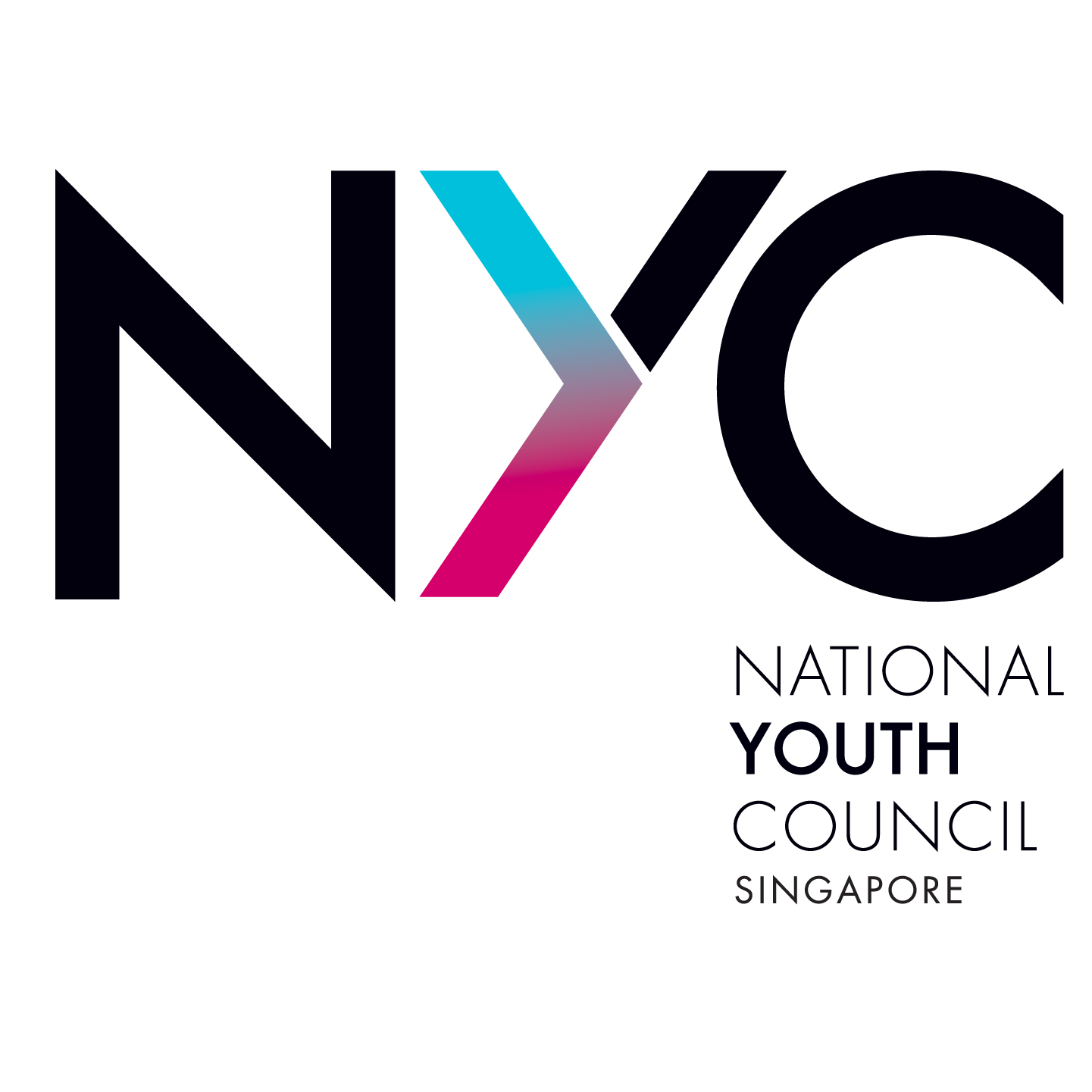 New logo for National Youth Council Singapore